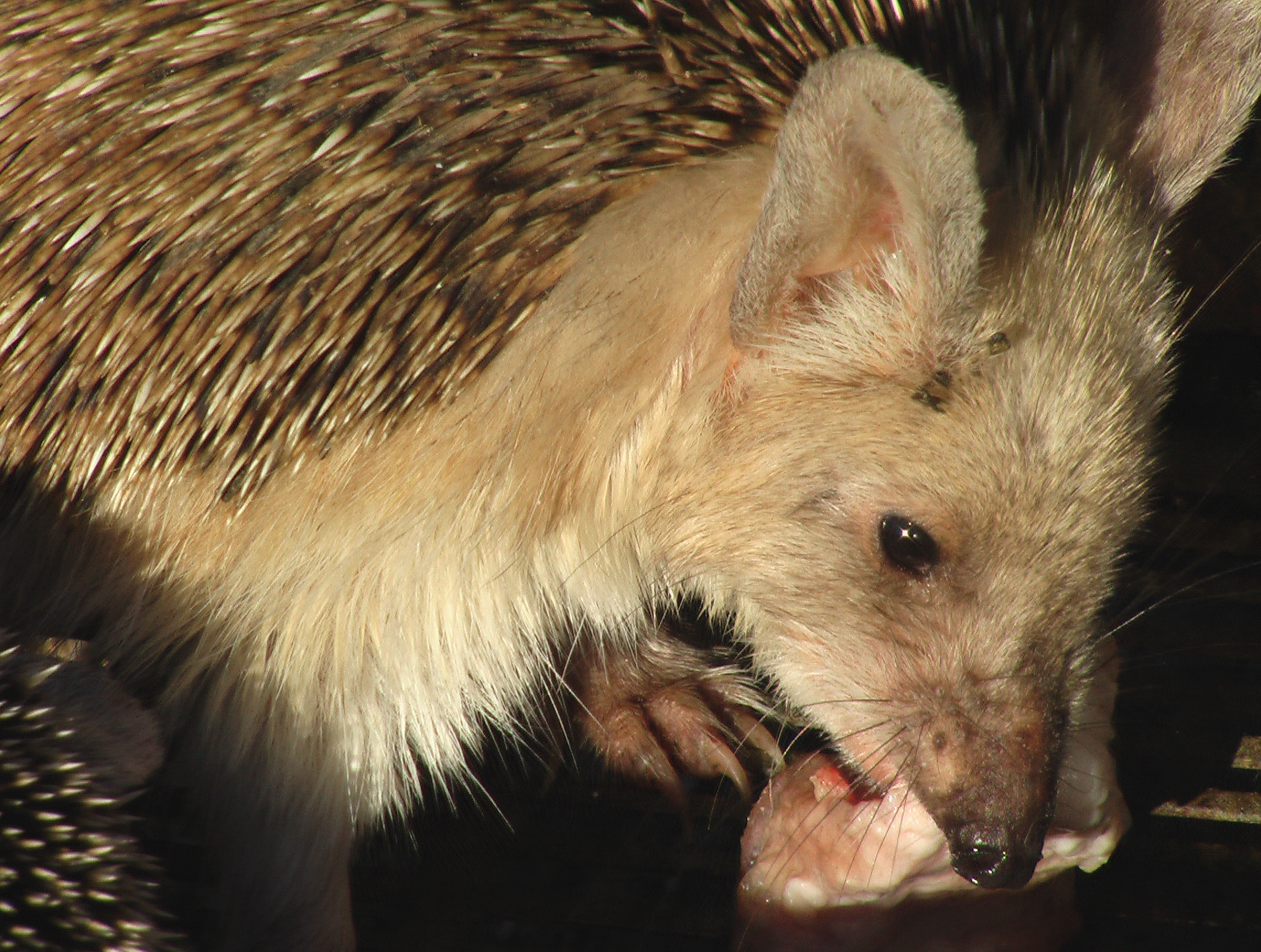 Long-eared hedgehog eating camel fat